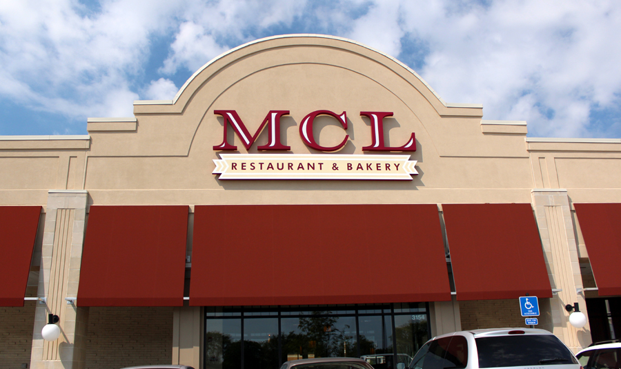 MCL Cafeteria at the Kingsdale Shopping Center in Upper Arlington, Ohio, in September 2013.